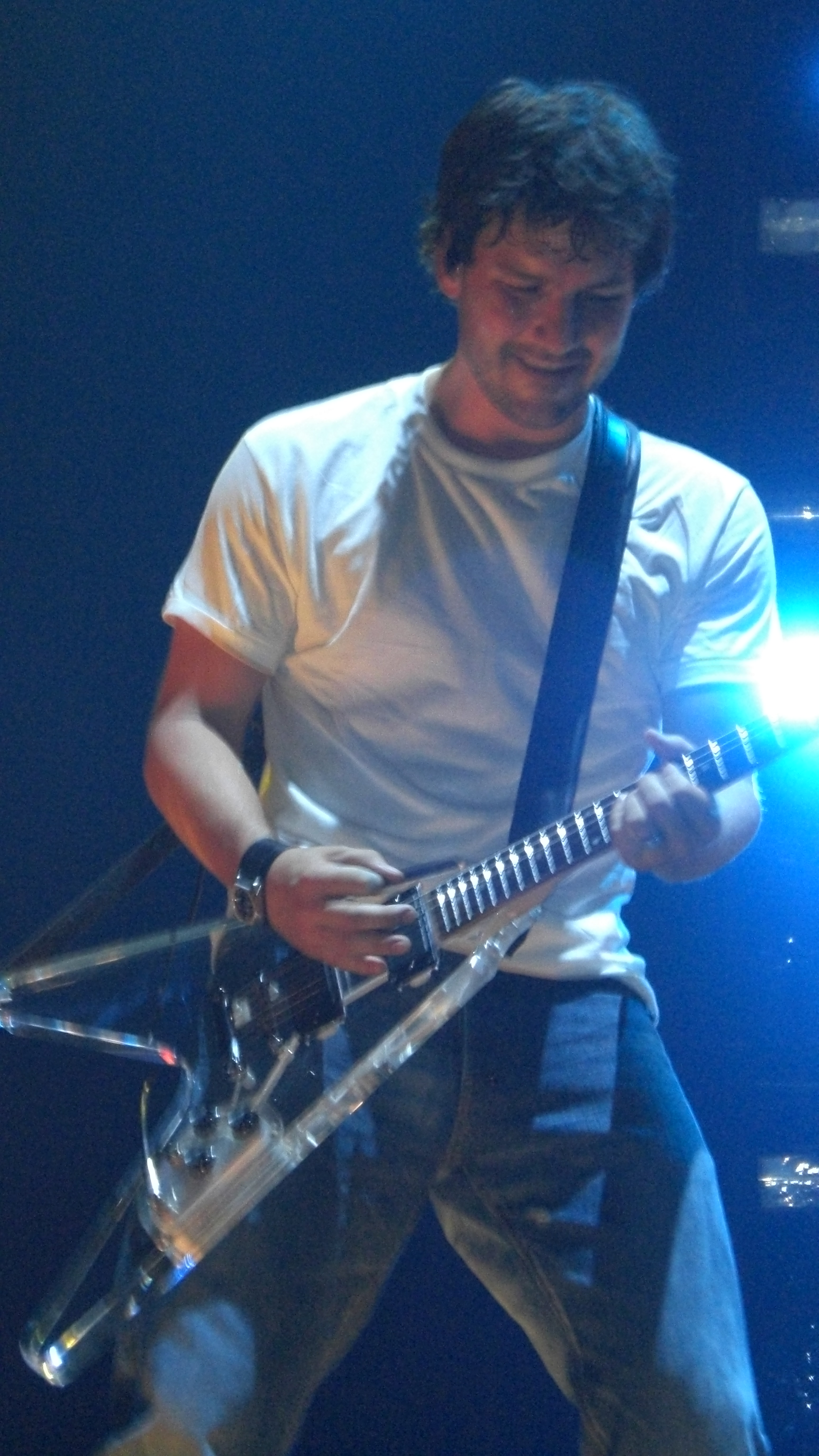 Ryan Peake on stage with Nickelback in London, September 2008.